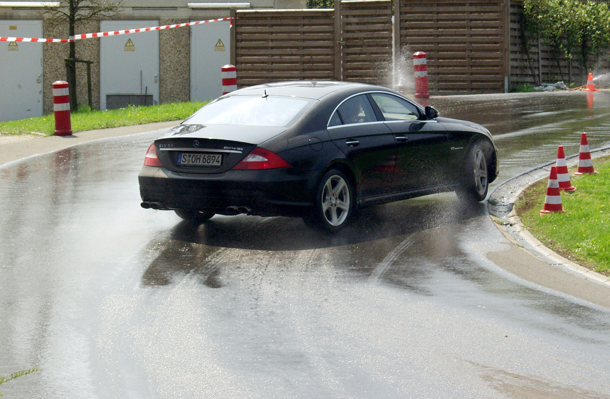 Mercedes AMG CLS 55 - Demonstration of drifting at the "Fahrsicherheitszentrum Nürburgring"